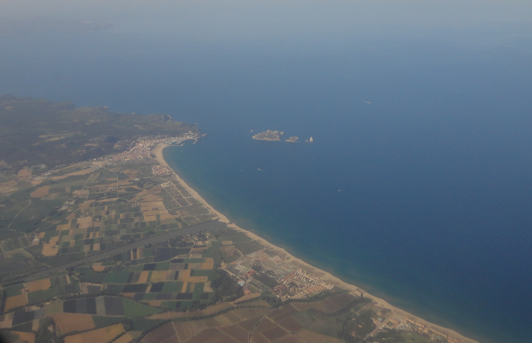 Illes Medes as seen from a Ryanair aircraft about to land in Girona airport